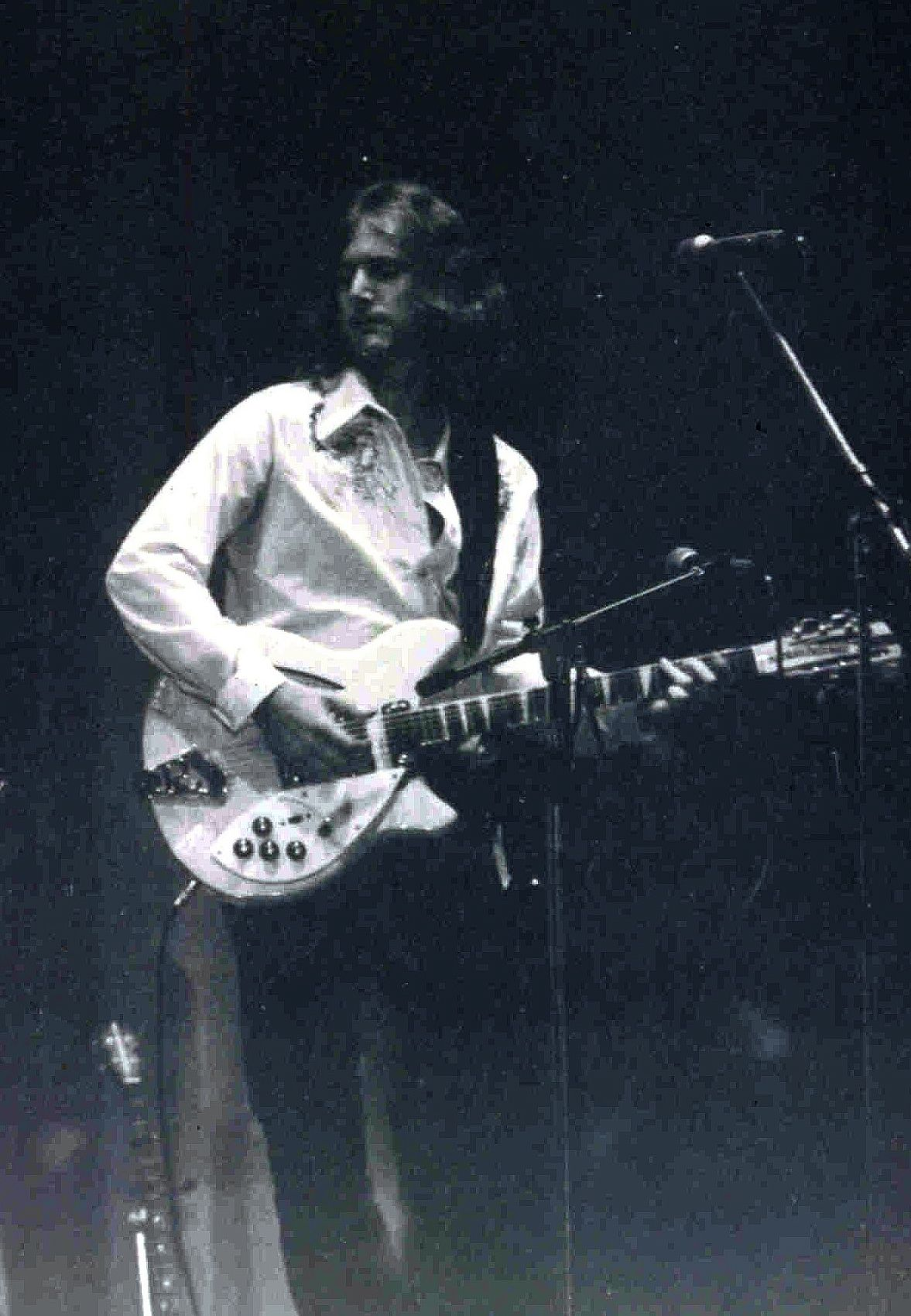 cropped version of musician Roger McGuinn playing electric guitar